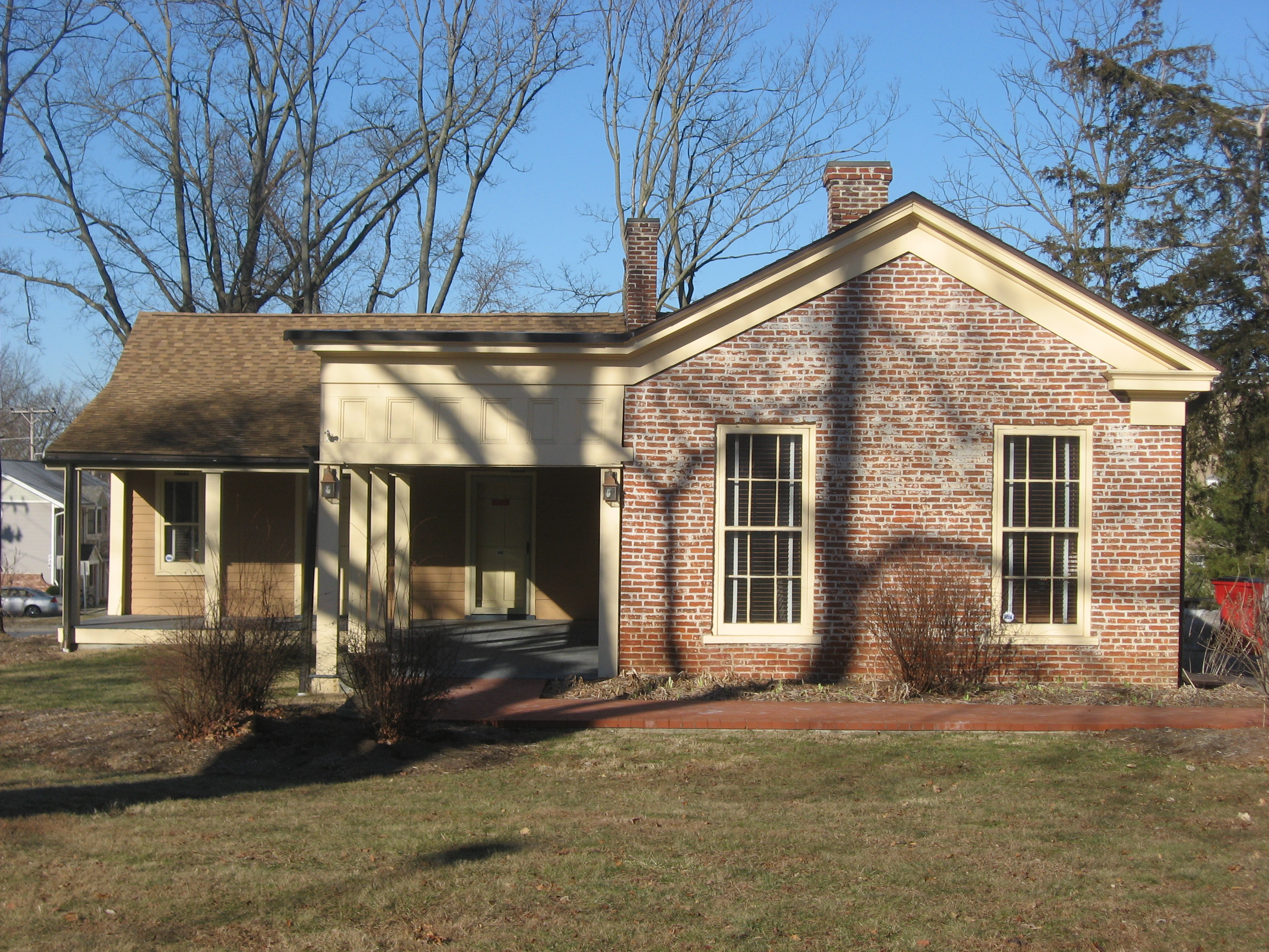 Eastern side of the Legg House, located at 324 S. Henderson Street on the campus of Indiana University in Bloomington, Indiana, United States. Built in 1848, it is listed on the National Register of Historic Places.